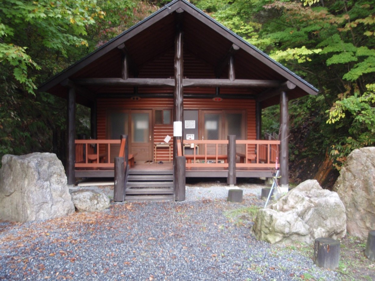 Usubetsu Onsen Yuutopia Usubetsu in Setana, Hokkaido.